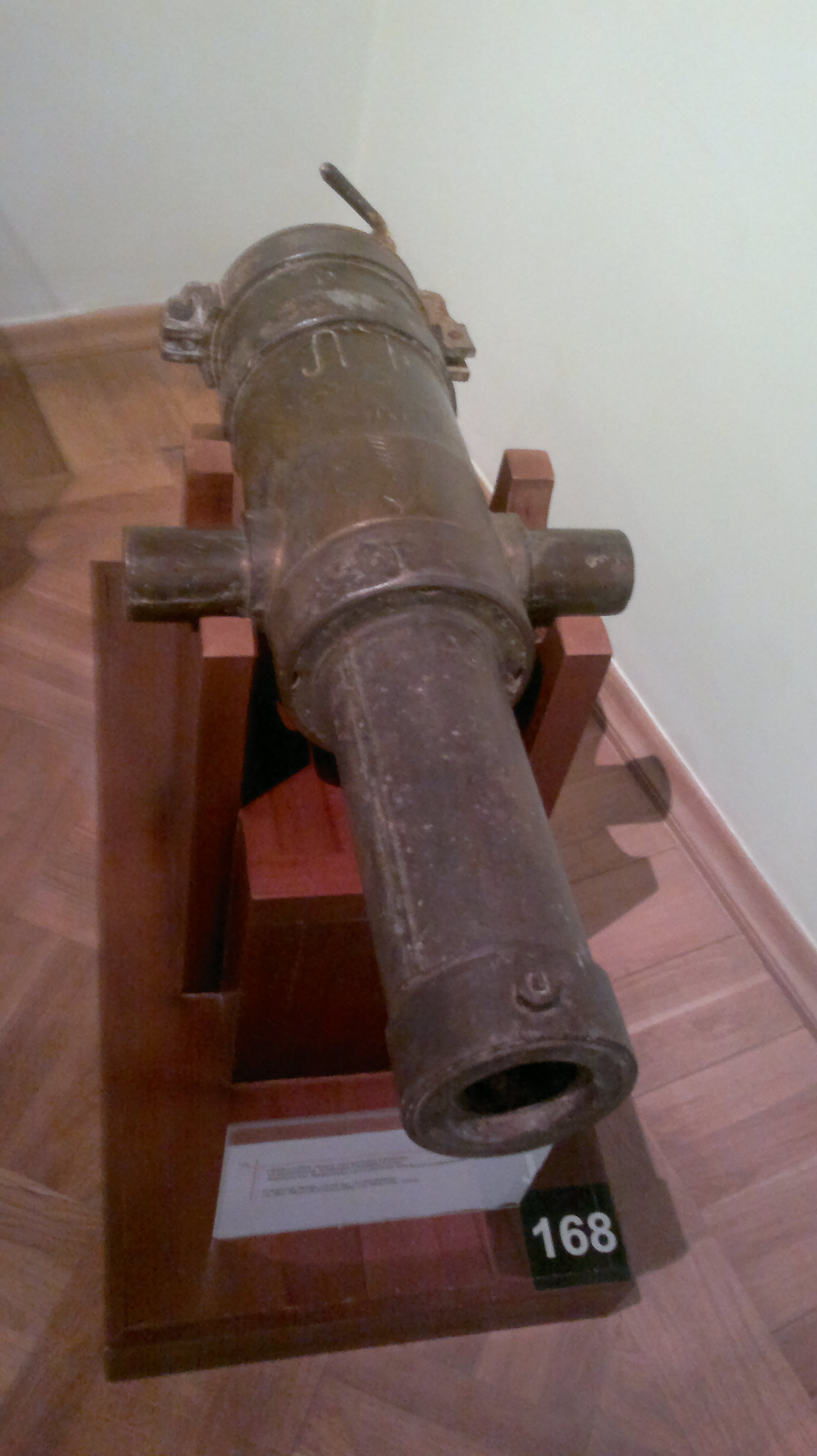 Armenian cannon of 1918 in Museum of History of Azerbaijan